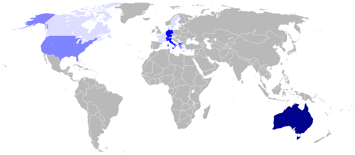 Map showing the presence of Macedonian speakers in the countries of the world by shades of blue.